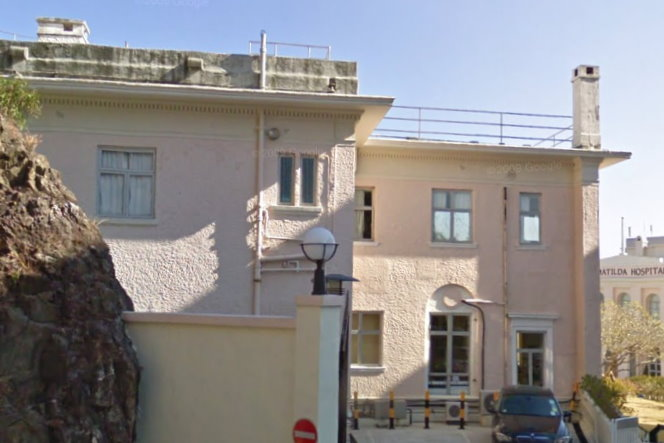 Matilda International Hospital Granville House